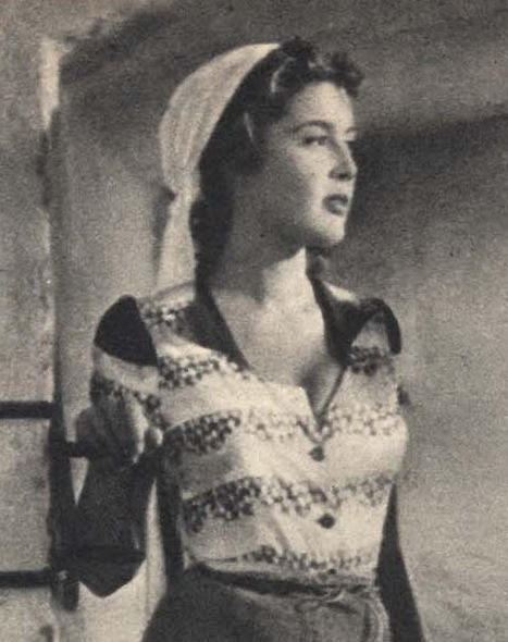 actresses Sophia Loren and Lise Bourdin in Comacchio, in the set of the Italian film La donna del fiume